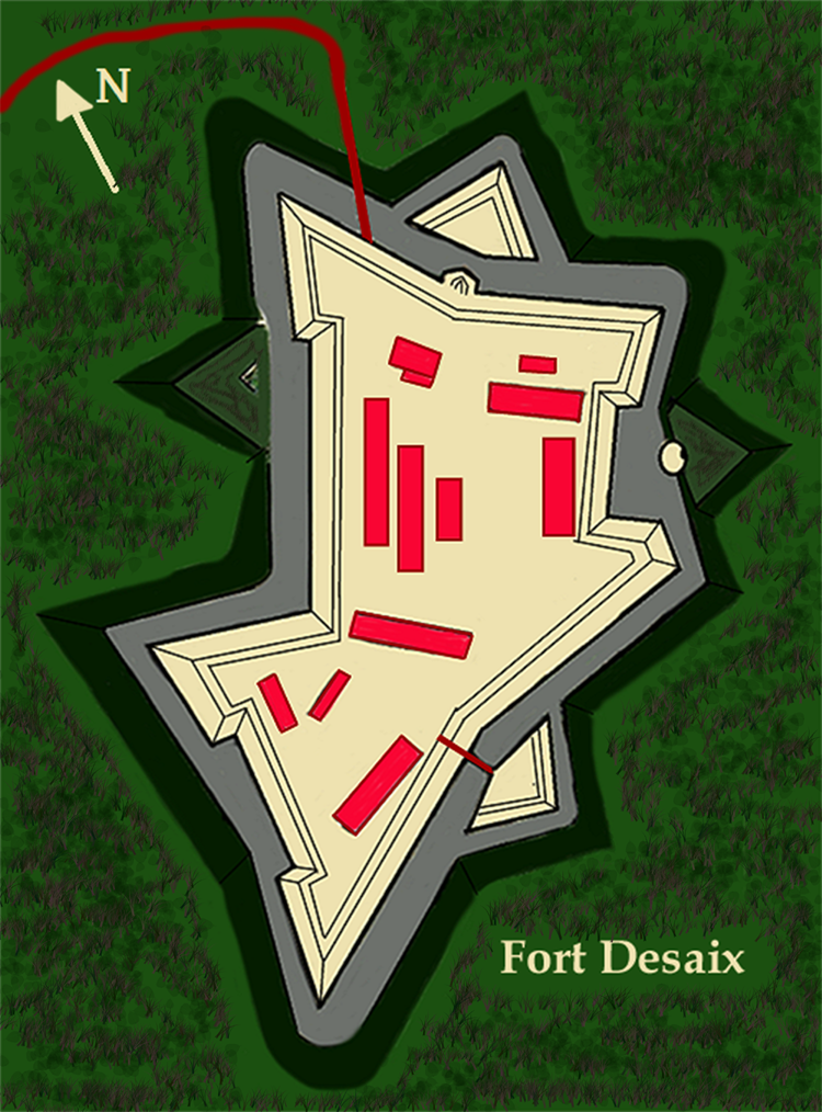 Fort Desaix - ancien Fort Bourbon (de 1790)